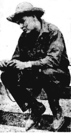 Actor Charles Ray, in a still from the film Paris Green (1920). The Washington times. (Washington [D.C.]), 05 June 1920. Chronicling America: Historic American Newspapers. Library of Congress.